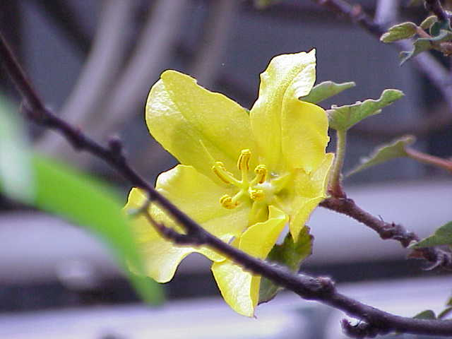 Species: Fremontodendron californicum Family: Sterculiaceae Image No. 3